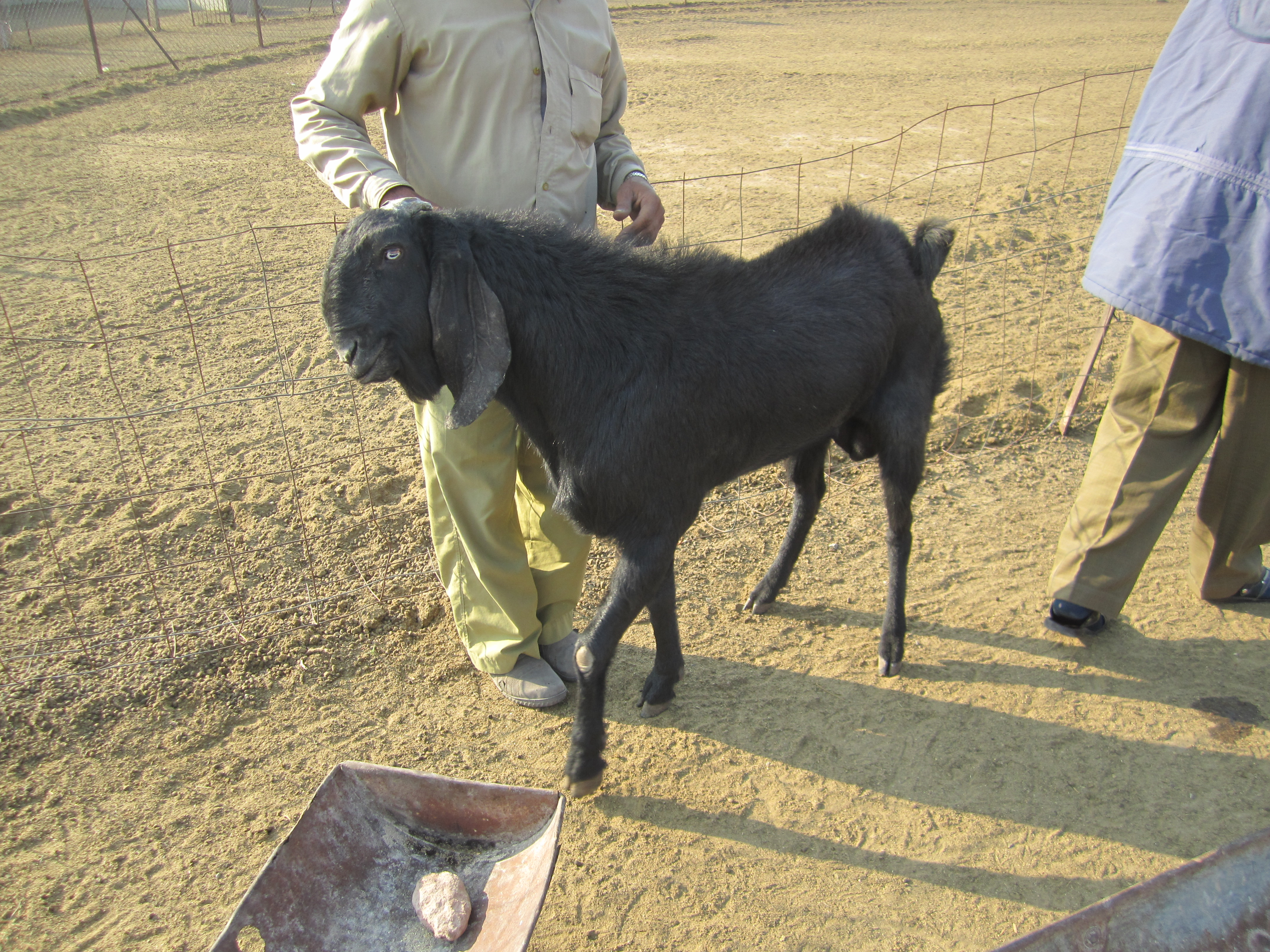 The Punjabi Beetal Buck